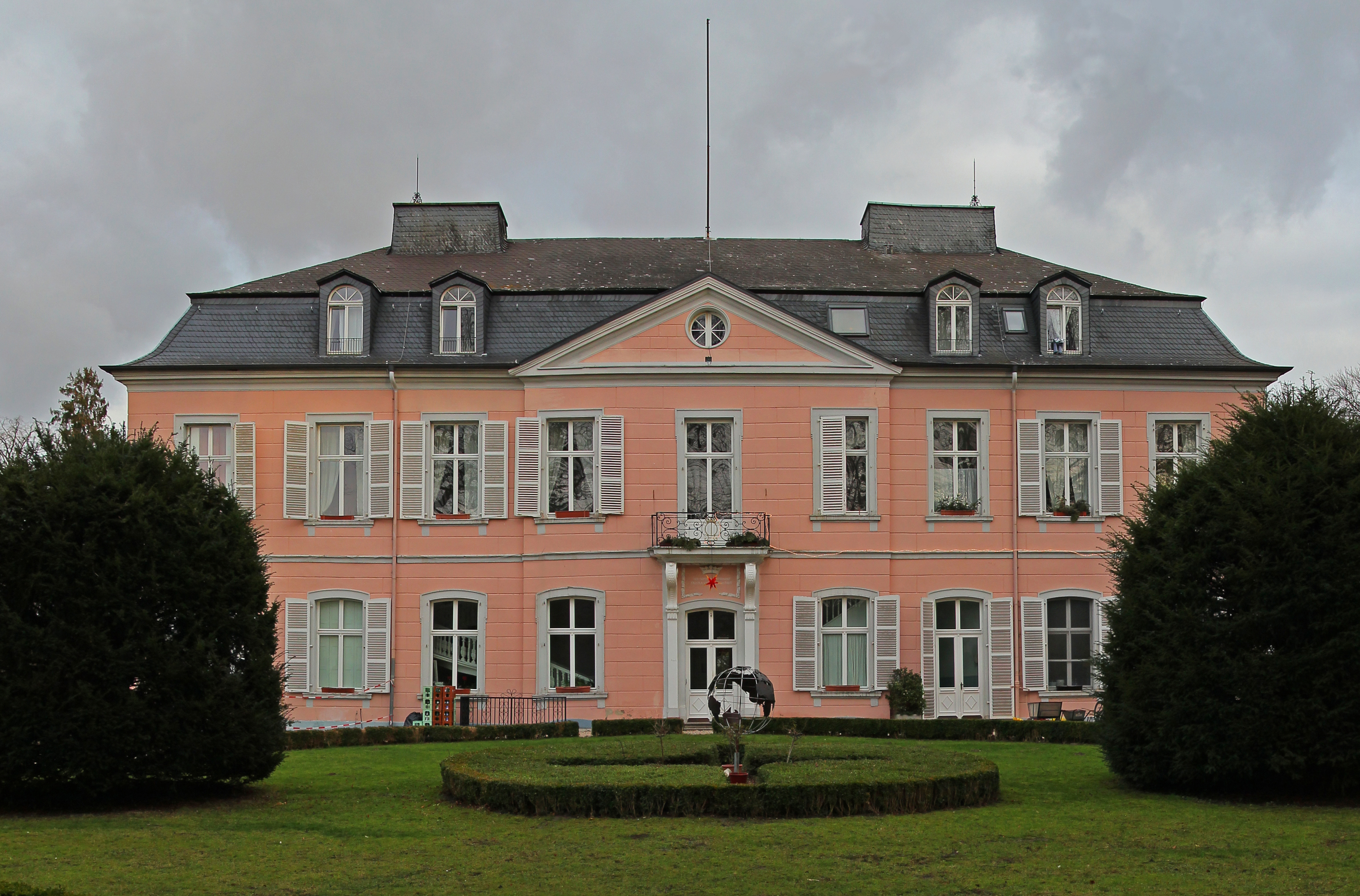 Bornheim Castle. Stitched with PTGui Pro.